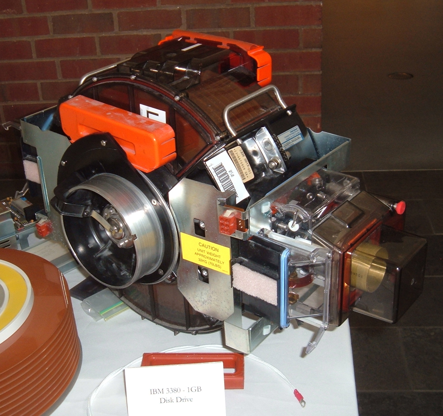 Removable drive module from IBM 3380 computer disk drive from early 1980s. I took this picture with permission at the EMC Corp. booth at the Massachusetts State Science Fair held at MIT on May 5, 2006.--agr 23:46, 10 May 2006 (UTC)